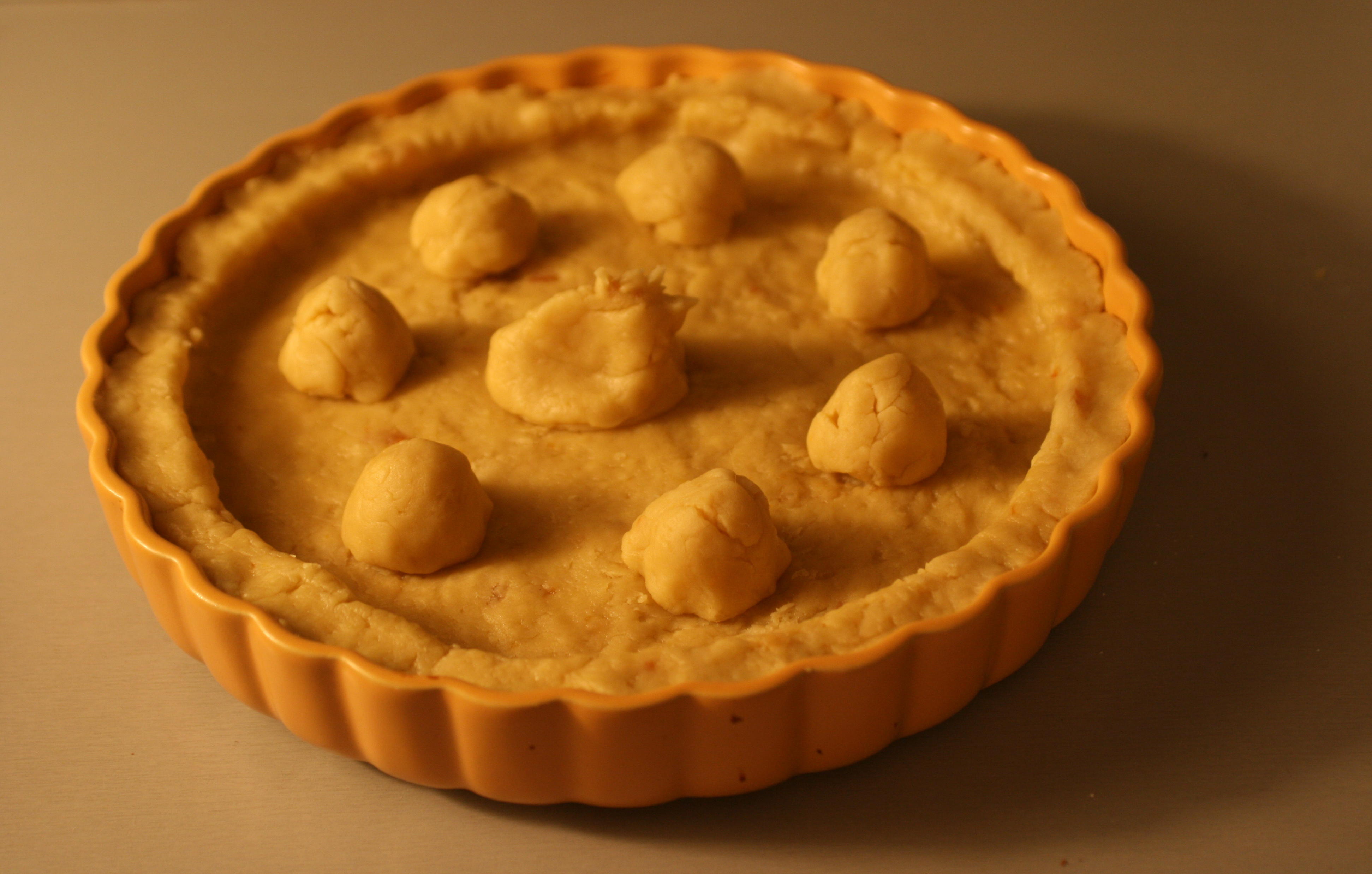 a French Provençal cake, before baking